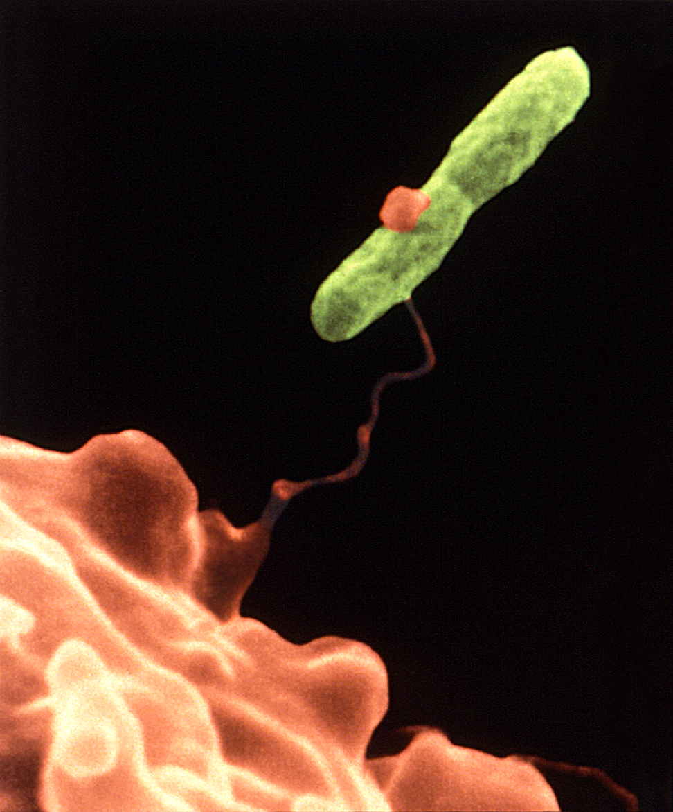 CDC PHIL description: "This electron micrograph depicts an amoeba, Hartmannella vermiformis (orange) as it entraps a Legionella pneumophila bacterium (green) with an extended pseudopod."